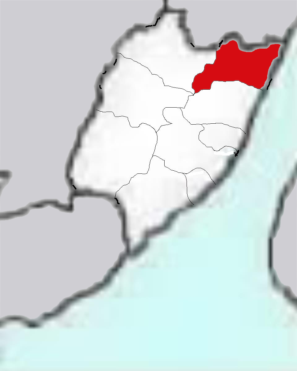 Maps of Fujian Province, China